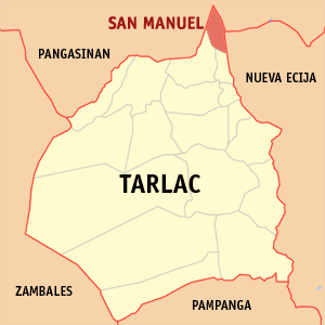 Map of Tarlac showing the location of San Manuel